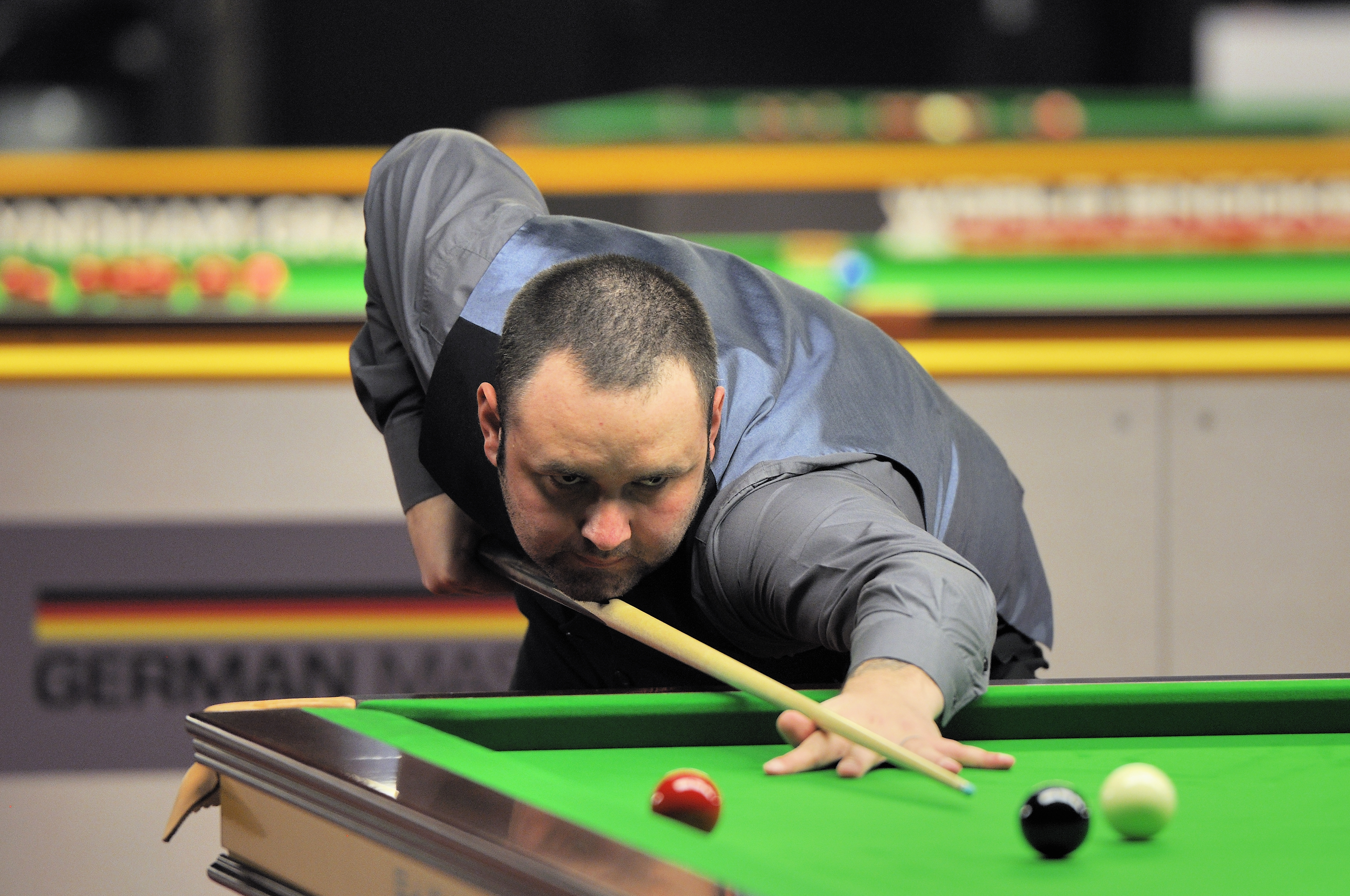 Picture taken in Berlin during the Snooker German Masters in 2014. Stephen Maguire.